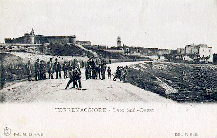 Old postcard, from , same name file